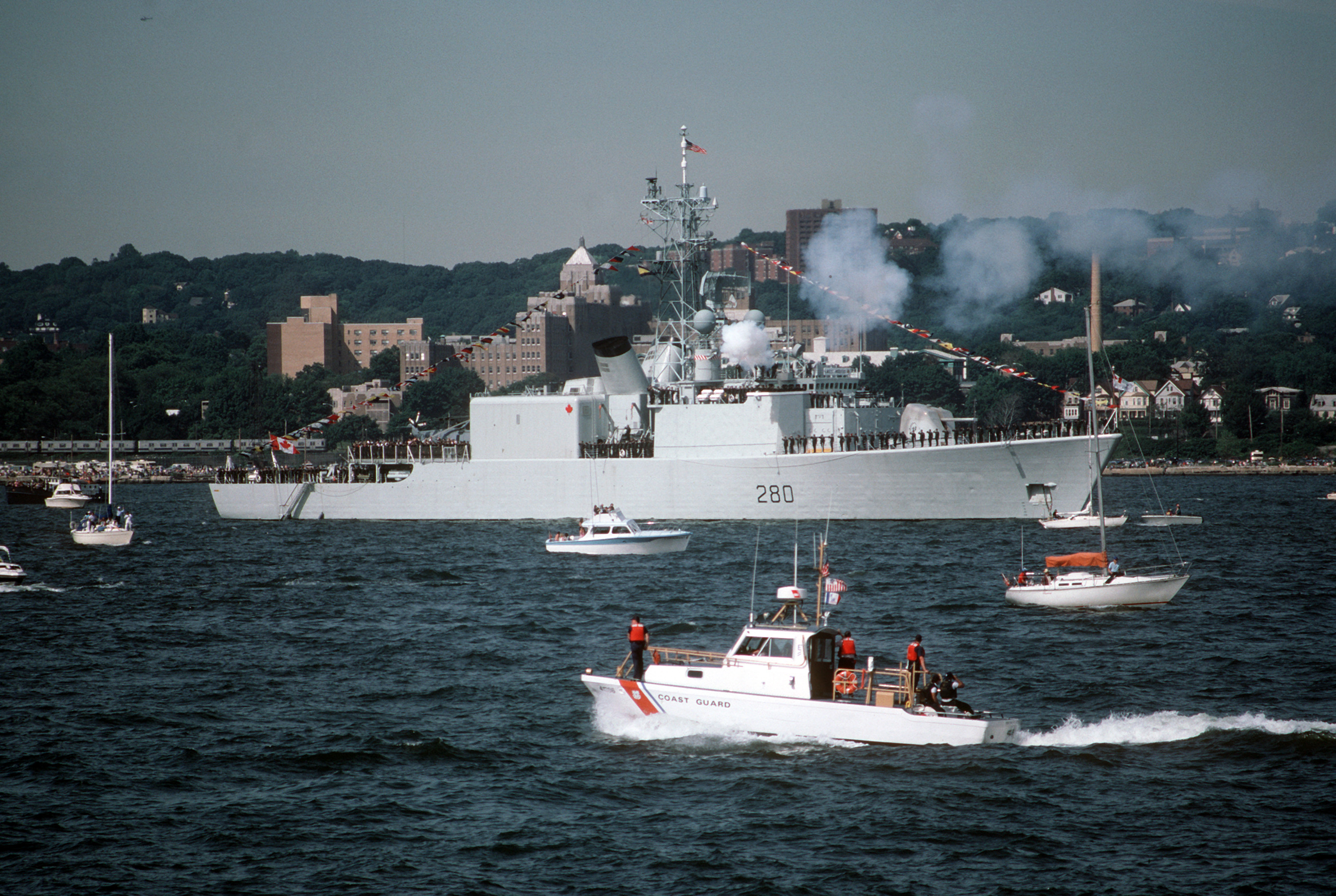 Crew members man the rails aboard Royal Canadian Navy destroyer HMCS Iroquois (DDG 280) during the 1986 International Naval Review at New York (USA).